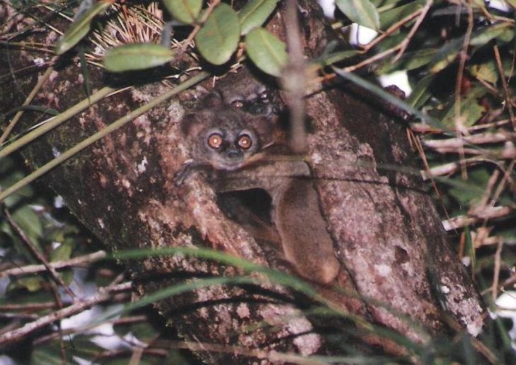 Lepilemur microdon: mother and her offspring in their sleeping hole in Ranomafana National Park.